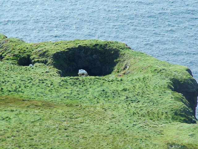 Natural Arches on the West coast of Bac Mòr, Treshnish Isles, Scotland